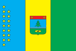 Flag of Yampilskyj district (Ukraine)